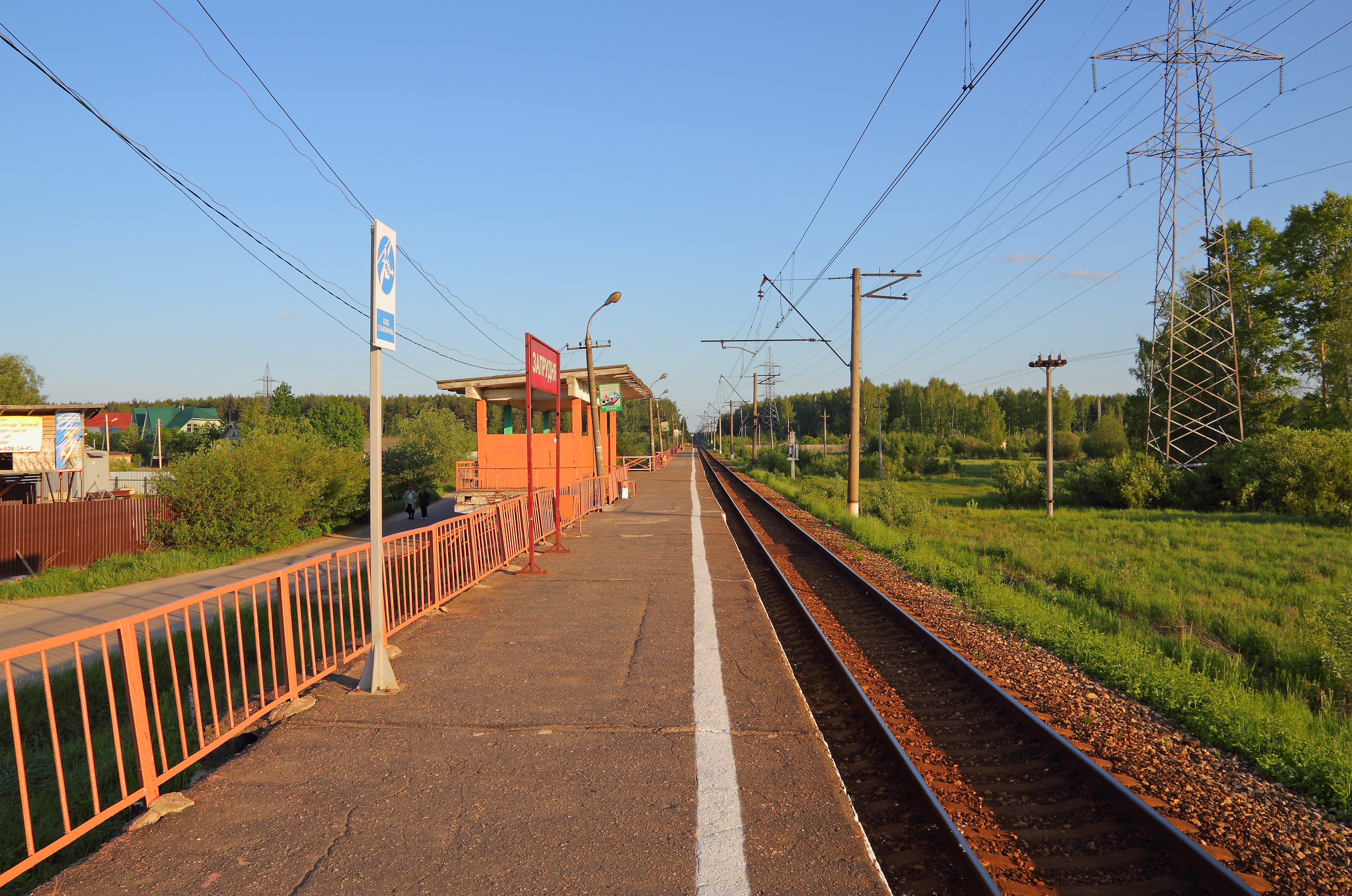 Zaprudnya (Moscow Oblast, Russia). Zaprudnya railway platform.